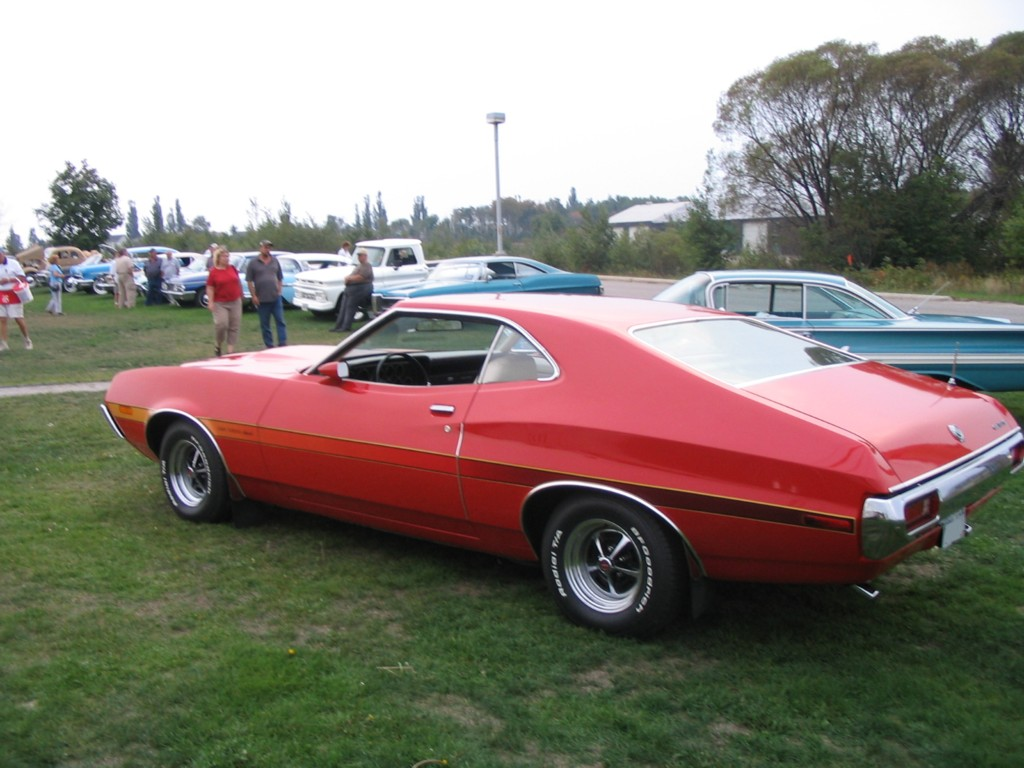 This is a photograph taken by the author of his own vehicle